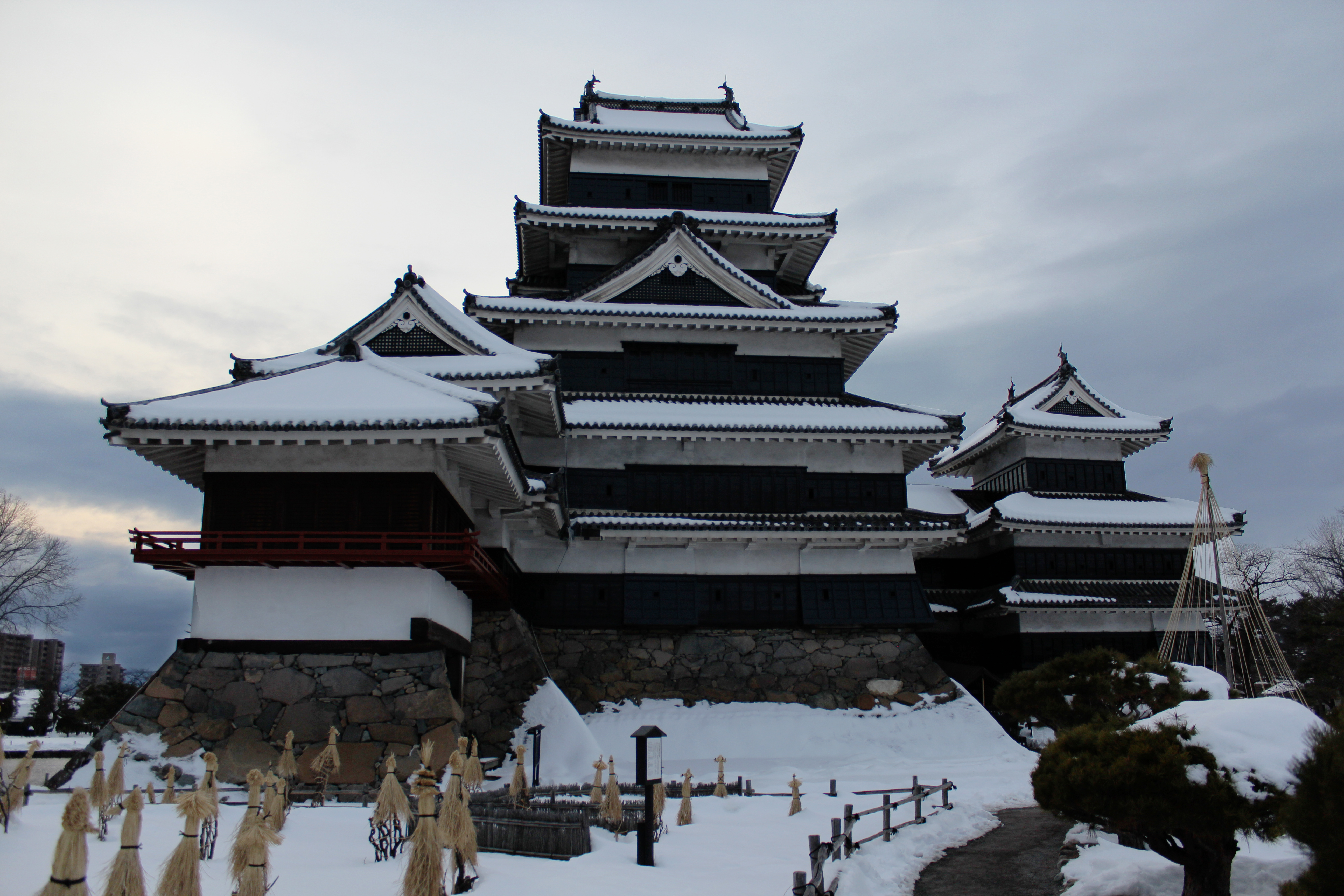 Matsumoto Castle, covered in snow.